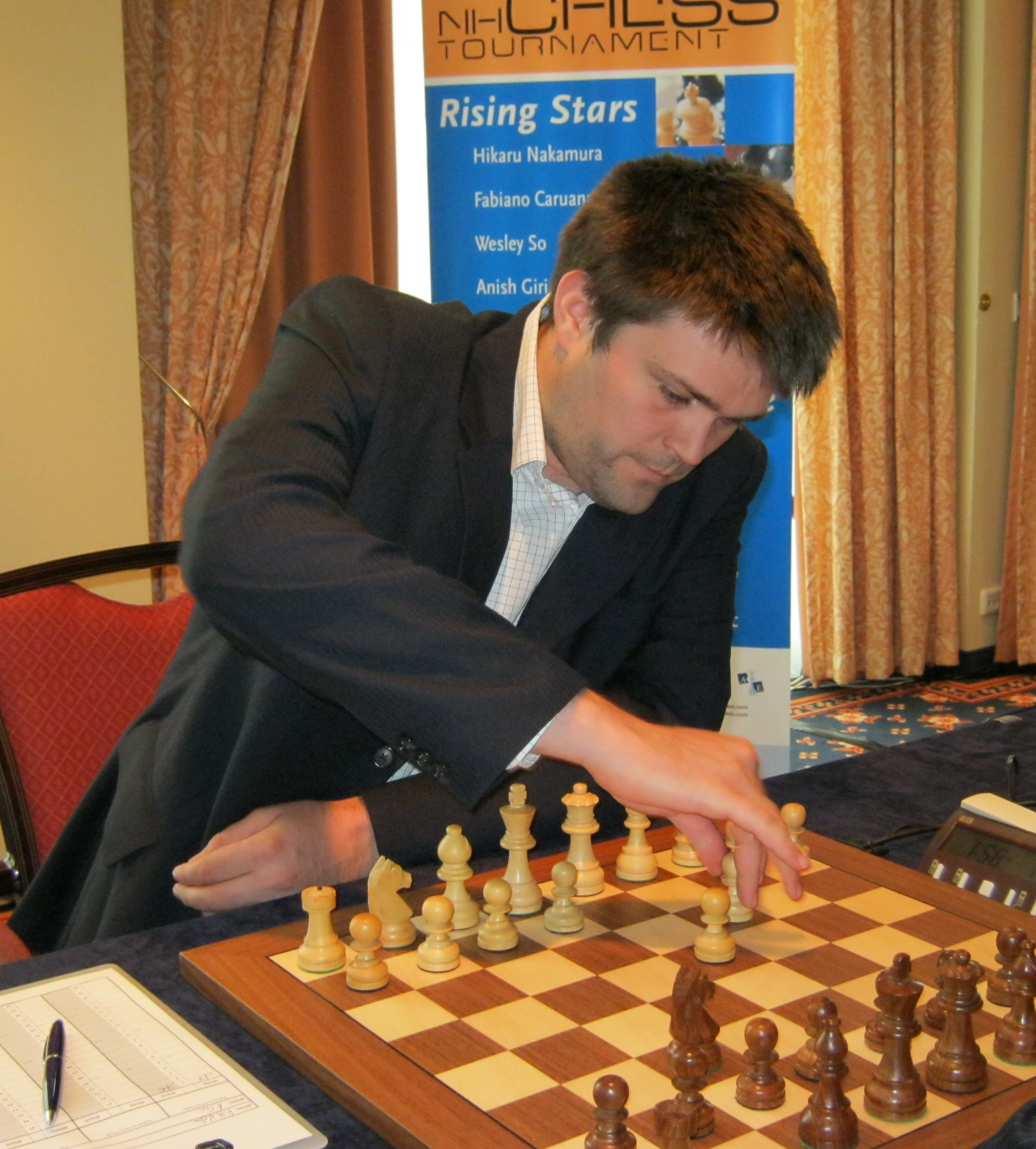 Peter Heine Nielsen, chess grandmaster